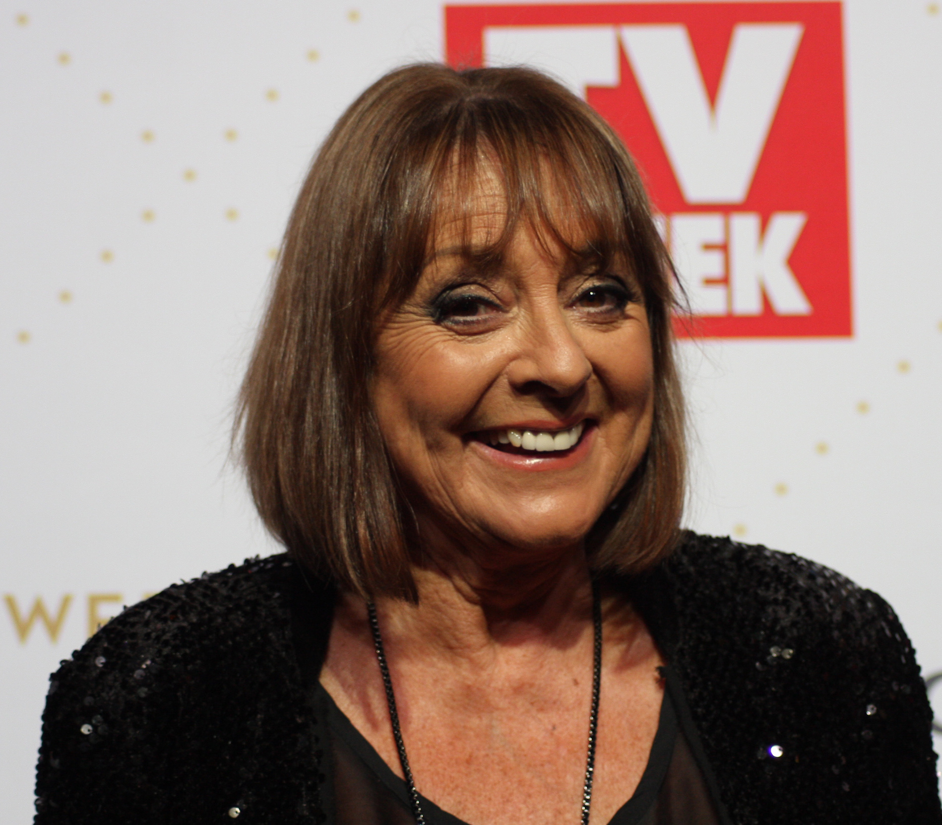 Denise Drysdale arrives at the 58th Annual Logie Awards at Crown Palladium